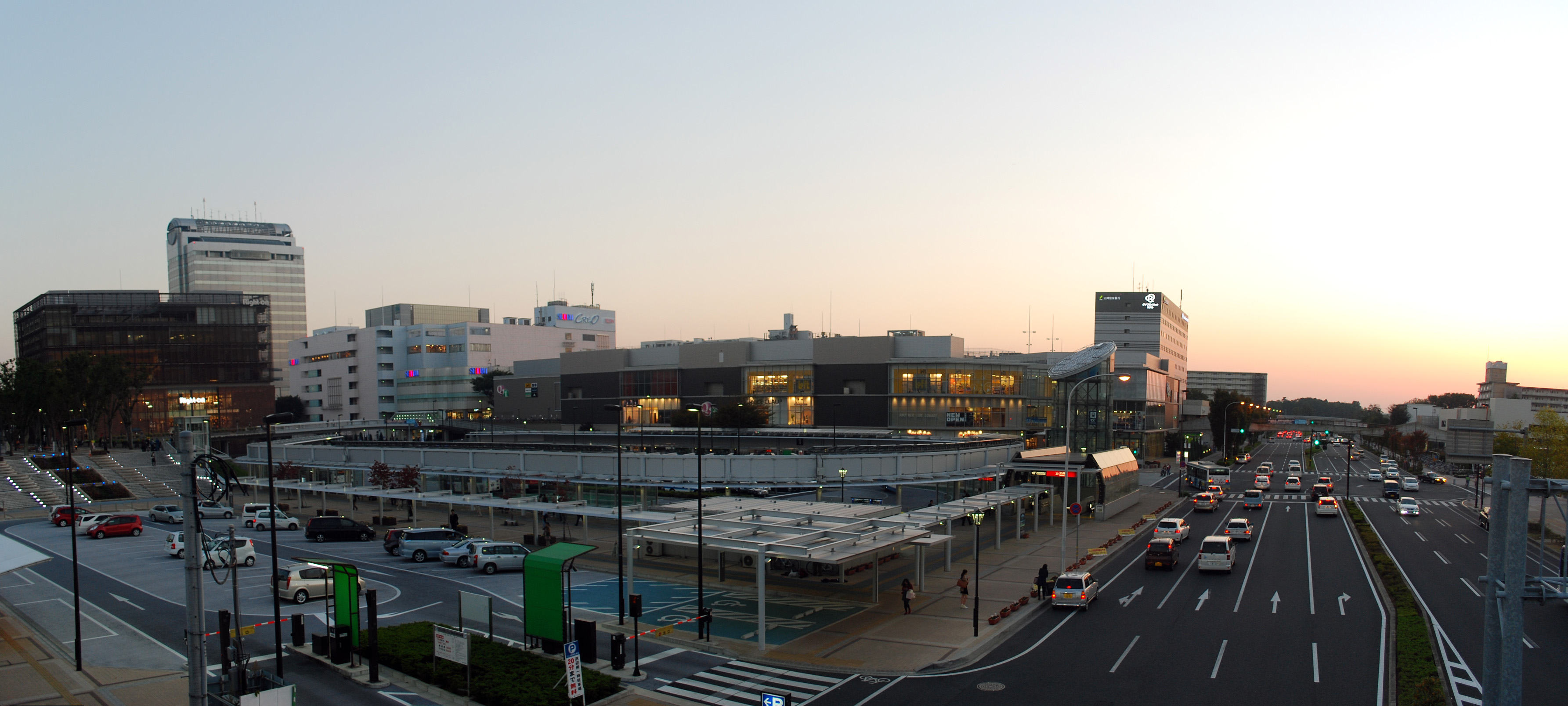 Panoramic view of downtown of Tskuba, Japan